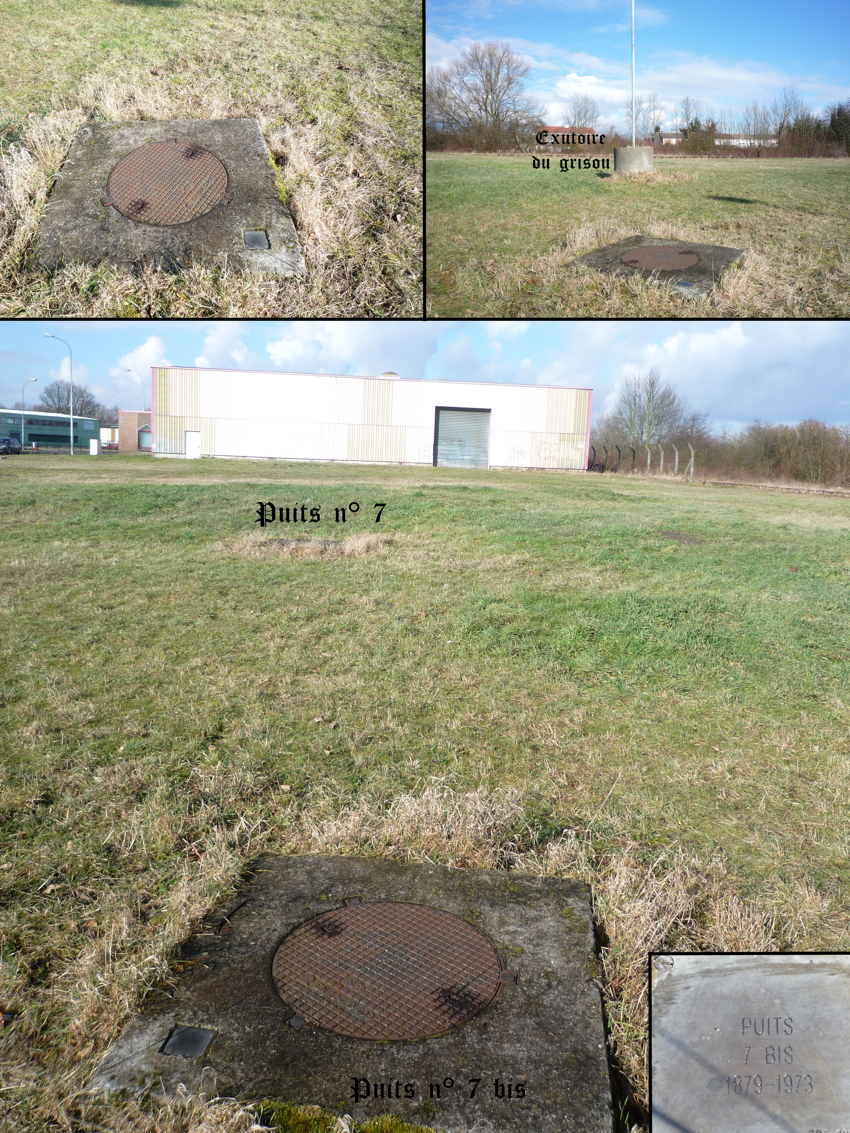 Pit n° 7 bis, Compagnie des mines de Lens, Wingles, Pas-de-Calais, Nord-Pas-de-Calais, France.